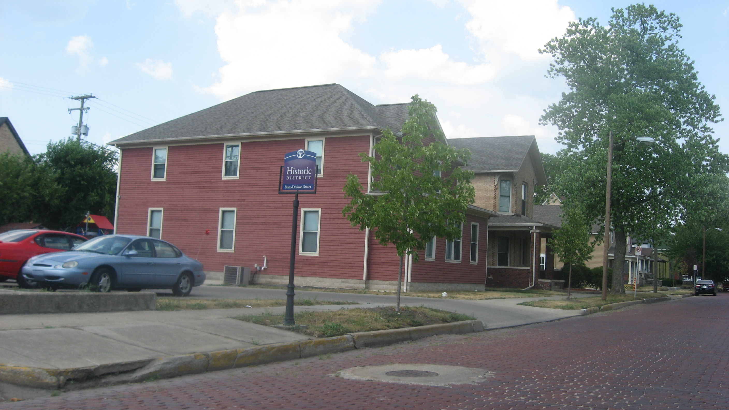 Houses on the northern side of the 100 block of E. State Street in Elkhart, Indiana, United States. This block is part of the State Street-Division Street Historic District, a historic district that is listed in the National Register of Historic Places.